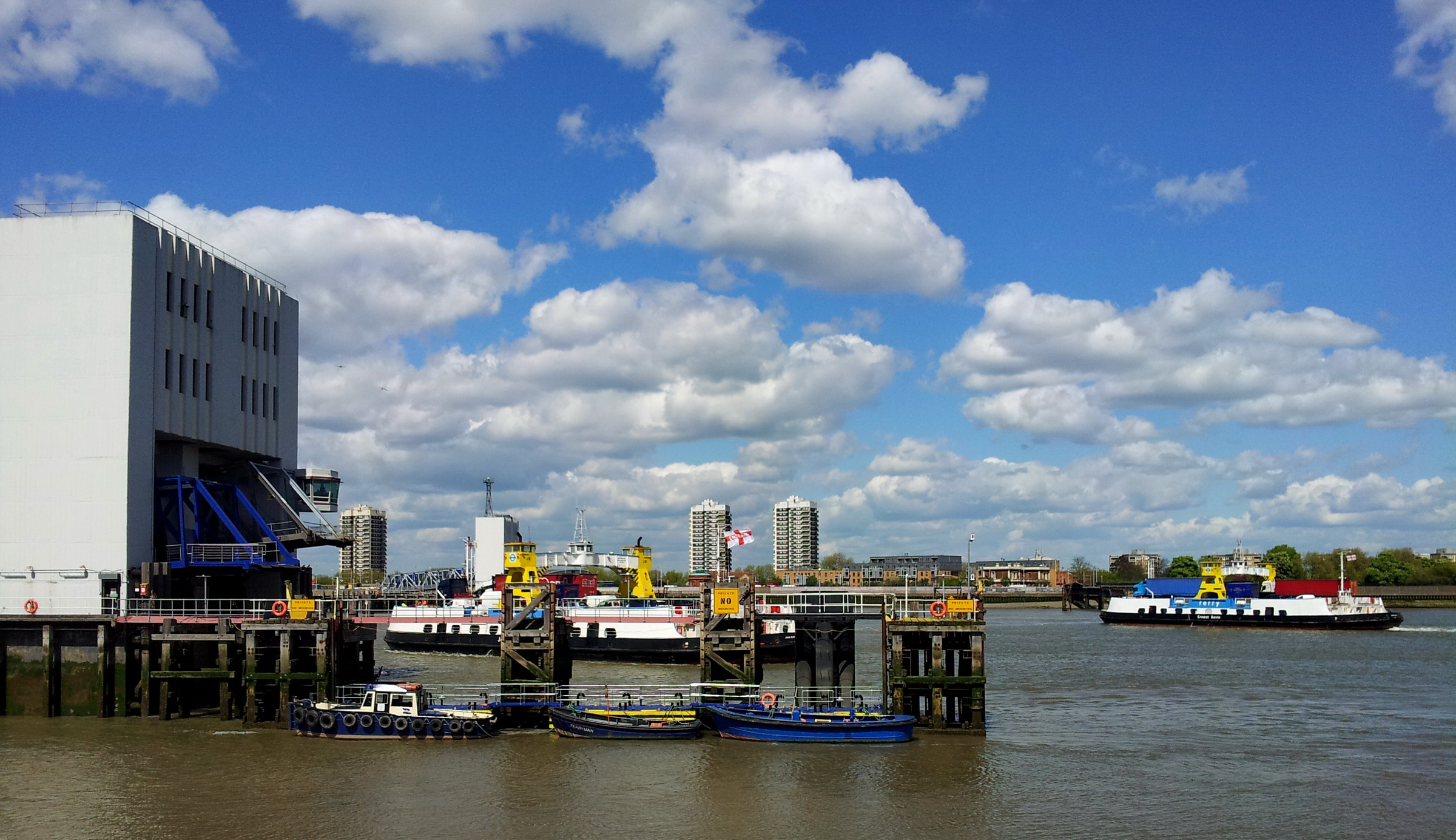 View of the Woolwich Ferry on the river Thames. In the background North Woolwich.